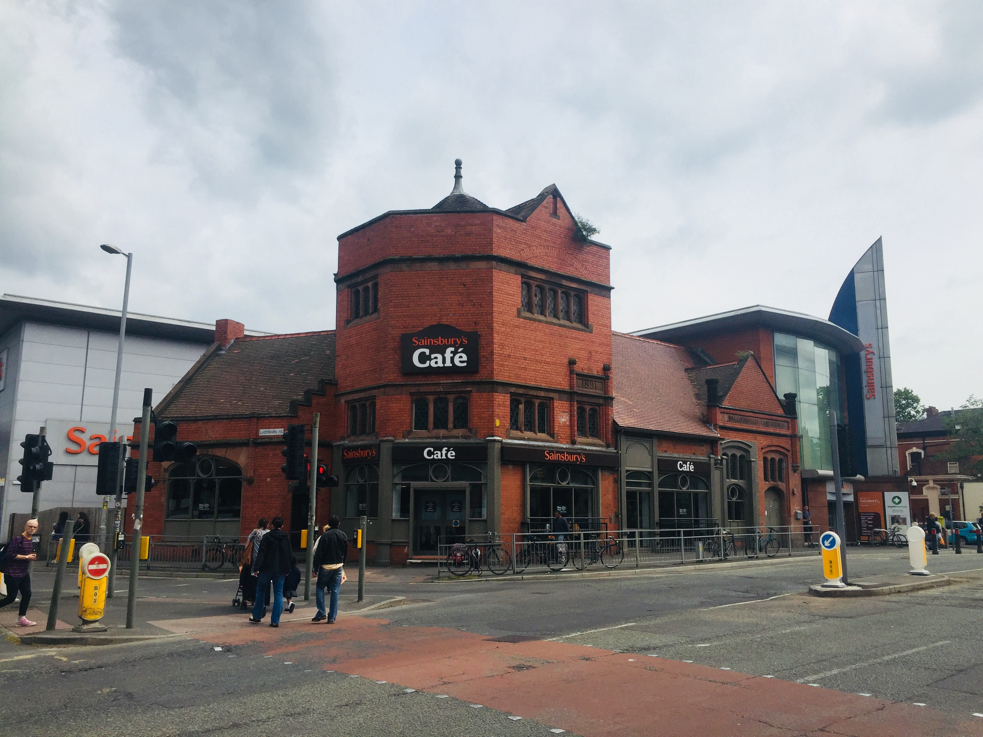 The former Fallowfield Railway Station in Manchester, now a Sainsbury's café